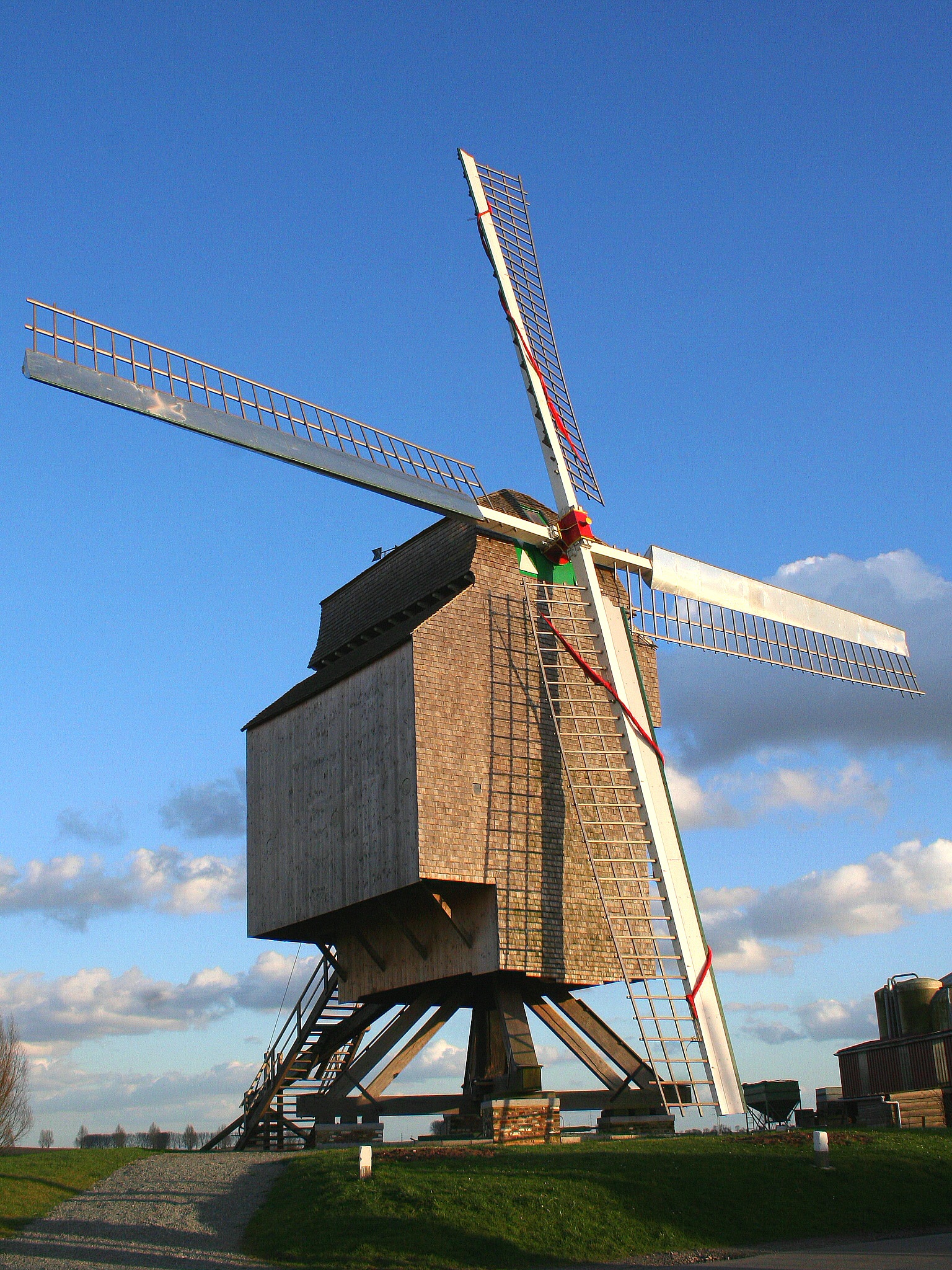 Moulbaix (Belgium), the windmill « de la Marquise » (XVII/XVIIIth centuries).